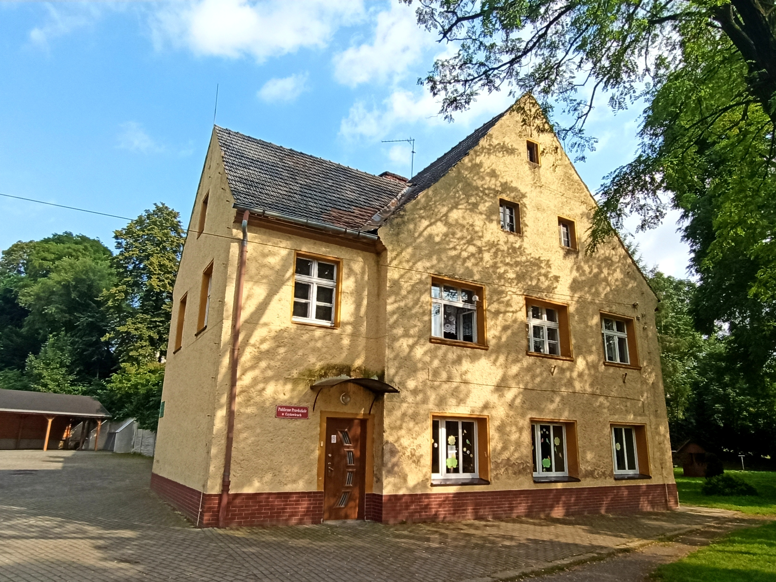 Czyżowice, Opole Voivodeship, Poland.